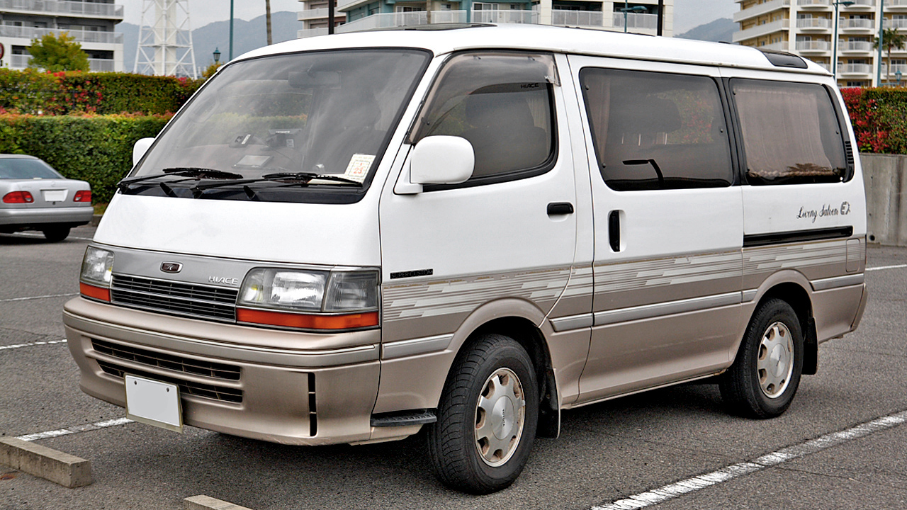 Toyota Hiace Wagon 2.4DT Super Custom Living Sloon EX ( LH100G )